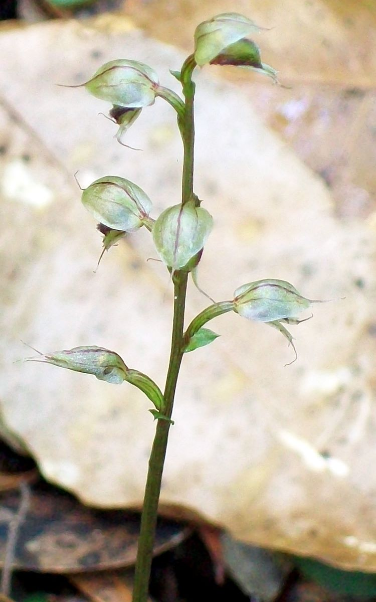 flowering orchid at Chatswood west, possibly Acianthus fornicatus. Dead leaves in the background are Schizomeria ovata